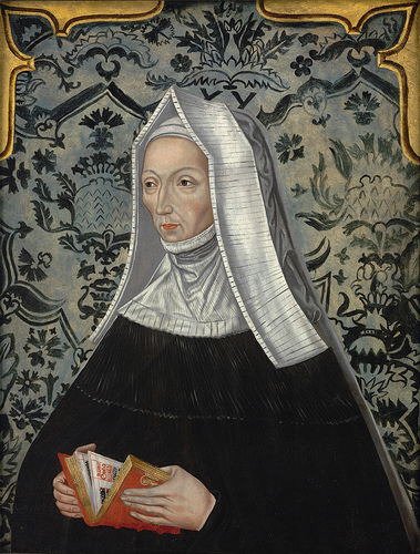 Portrait of Margaret Beaufort (1443-1509) English School Later 16th Century, Oil in panel This portrait would probably have been commissioned as part of a set of corridor portraits in the later sixteenth century during the reign of Elizabeth I. Such sets were designed to emphasise a family’s loyalty to the Tudor regime, and would invariably have included images of Henry VII and Henry VIII, though perhaps not the Catholic Queen Mary. In this image, however, Margaret Beaufort is shown in an avowedly religious guise, with a devotional book of hours, and wears the costume of a vowess. Margaret testified in her lifetime to a number of visions, and was a strong advocate of the sanctity of Henry VI. All the portraits of Margaret show her in this pose, although they are all careful to avoid any overtly Catholic symbols, and here the white barbe of her outfit covers her chin, as decreed by her royal status. There is no surviving contemporary portrait of Margaret, and it is unclear whether this image derives from a lost original, or is a posthumous likeness based on other sources such as the Torrigiano tomb at Westminster Abbey. The present portrait is amongst the most impressive of Margaret’s iconography, not least because it is in a state of extremely good preservation. The majority of her portraits show her with a plain background, but here she is seen in front of a richly ornamented cloth of state, surrounded by a gold arch.